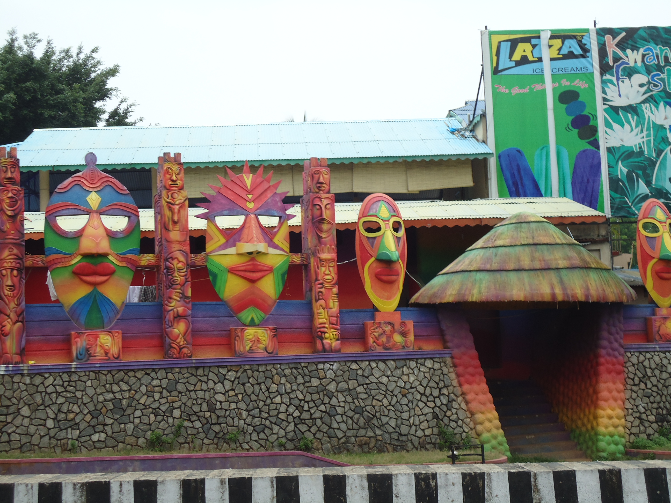 wall of silver stome water theme park